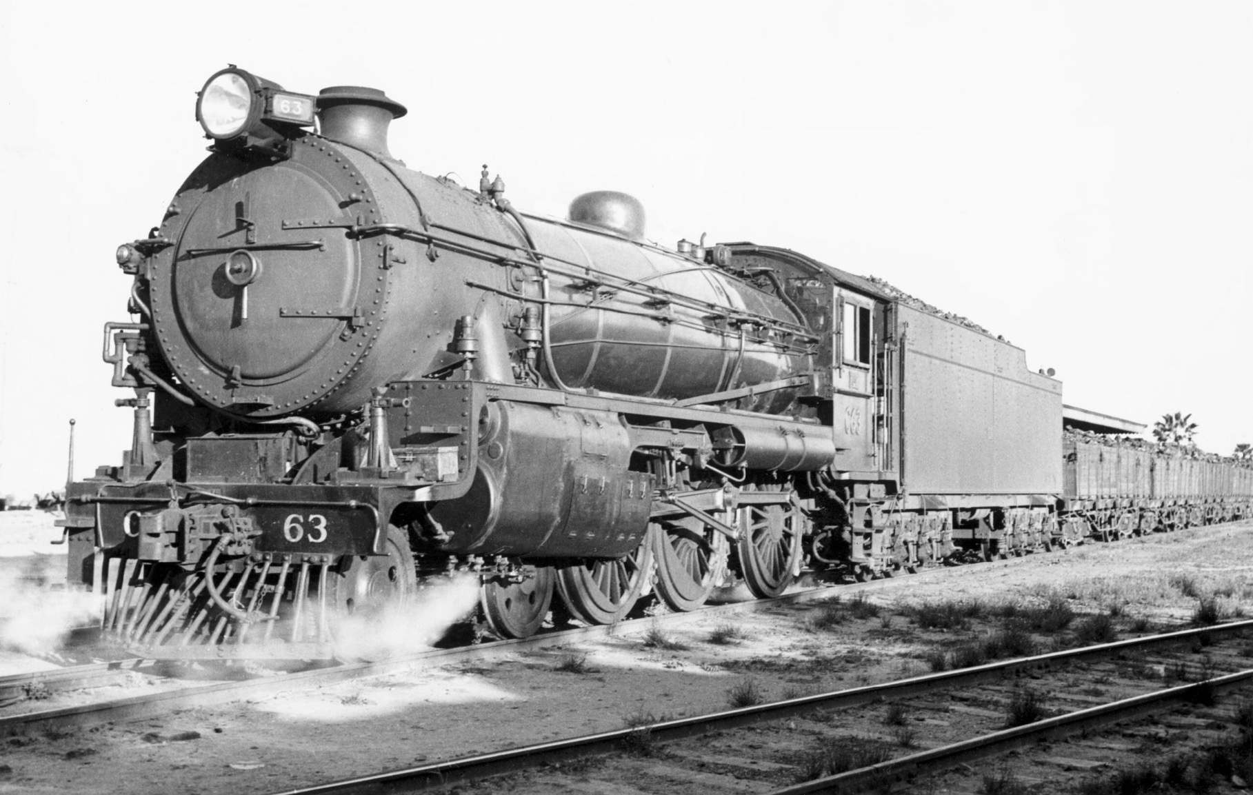 "The biggest products of Walkers Limited, Queensland were eight chunky (Commonwealth Railways C class) 4-6-0's based on NSWGR 36-class for service on the Trans-Australian Railway ..."